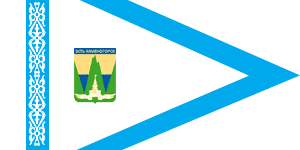 Flag of Oskemen